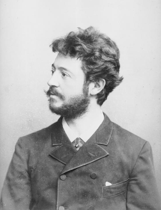 German violinist of Dutch origin Henri Petri (1856-1914)